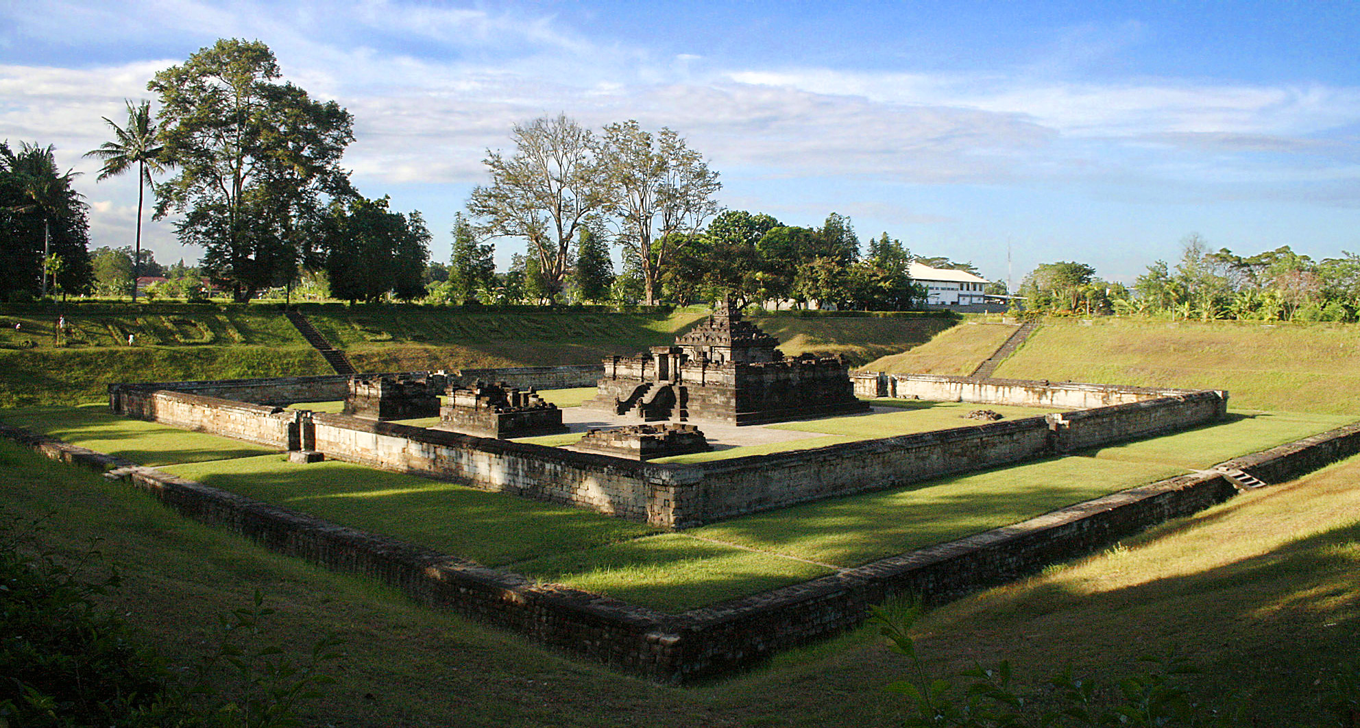 Sambisari temple, the 9th century Hindu temple burried under volcanic ashes for centuries. Yogyakarta, Indonesia.